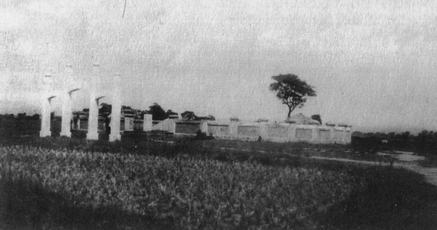 Memorial to a student murdered by troops during a demonstration in Anking, June 1921. Destroyed early 1924 by order of the newly appointed civilian governor Ma Lianjia (馬聯甲 W.-G.: Ma Lien-chia, 1864-1924) who as then military commander had been responsible for the killing.